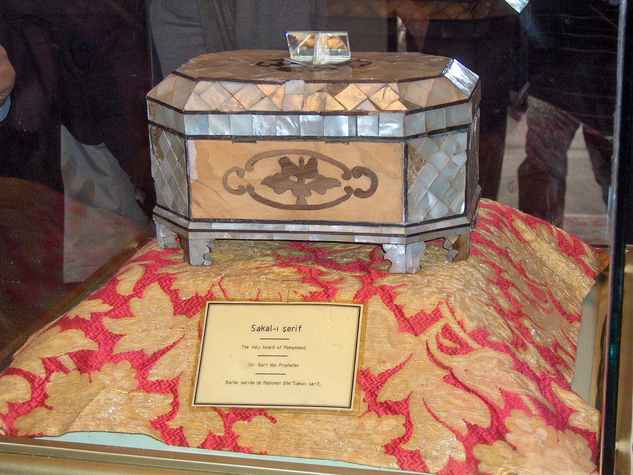 The Beard of the Islamic prophet Muhammad; Mevlâna mausoleum; Konya, Turkey